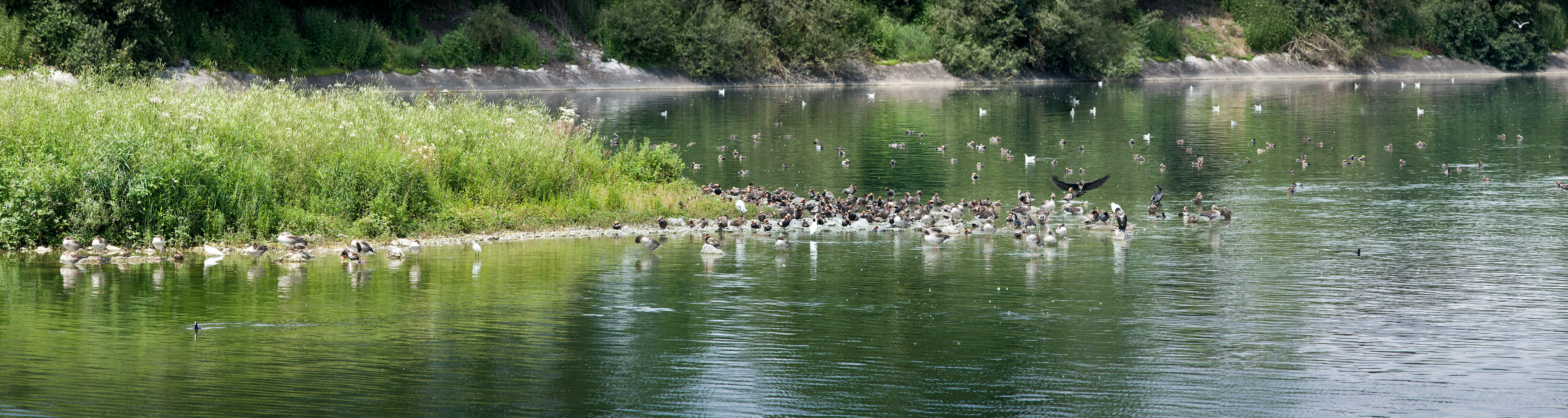 140 degree Panorama of a crowd of waterbirds in the eastern part of Ismaninger Speichersee. The Ismaninger Speichersee is an artificial lake, northeast of Munich, between Ismaning and Neufinsing.